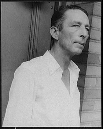 From the collection of the Library of Congress and in the public domain: [Portrait of Robinson Jeffers]. Van Vechten, Carl, 1880-1964, photographer. Created/Published 1937 July 9. Notes Title derived from information on verso of photographic print. Van Vechten number: XLI K 16. Gift; Carl Van Vechten Estate; 1966. Forms part of: Portrait photographs of celebrities, a LOT which in turn forms part of the Carl Van Vechten photograph collection (Library of Congress). Subjects Jeffers, Robinson,--1887-1962. Portrait photographs. Medium 1 photographic print : gelatin silver. Call Number LOT 12735, no. 585 Special Terms of Use For publication information see "Carl Van Vechten Photographs (Lots 12735 and 12736)" Part of Van Vechten, Carl, 1880-1964. Portrait photographs of celebrities Repository Library of Congress Prints and Photographs Division Washington, D.C. 20540 USA Digital ID (intermediary roll film) van 5a52184